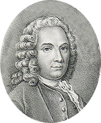 Thomas Plomgren (1702-1754)